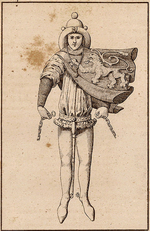 Fantasy portrait of Rainald of Valkenburg, as published in: J.F. Willems (red.), Belgisch museum voor de Nederduitsche tael- en letterkunde en de geschiedenis des vaderlands (Eerste deel). Maatschappij tot Bevordering der Nederduitsche Taal- en Letterkunde, Gent 1837